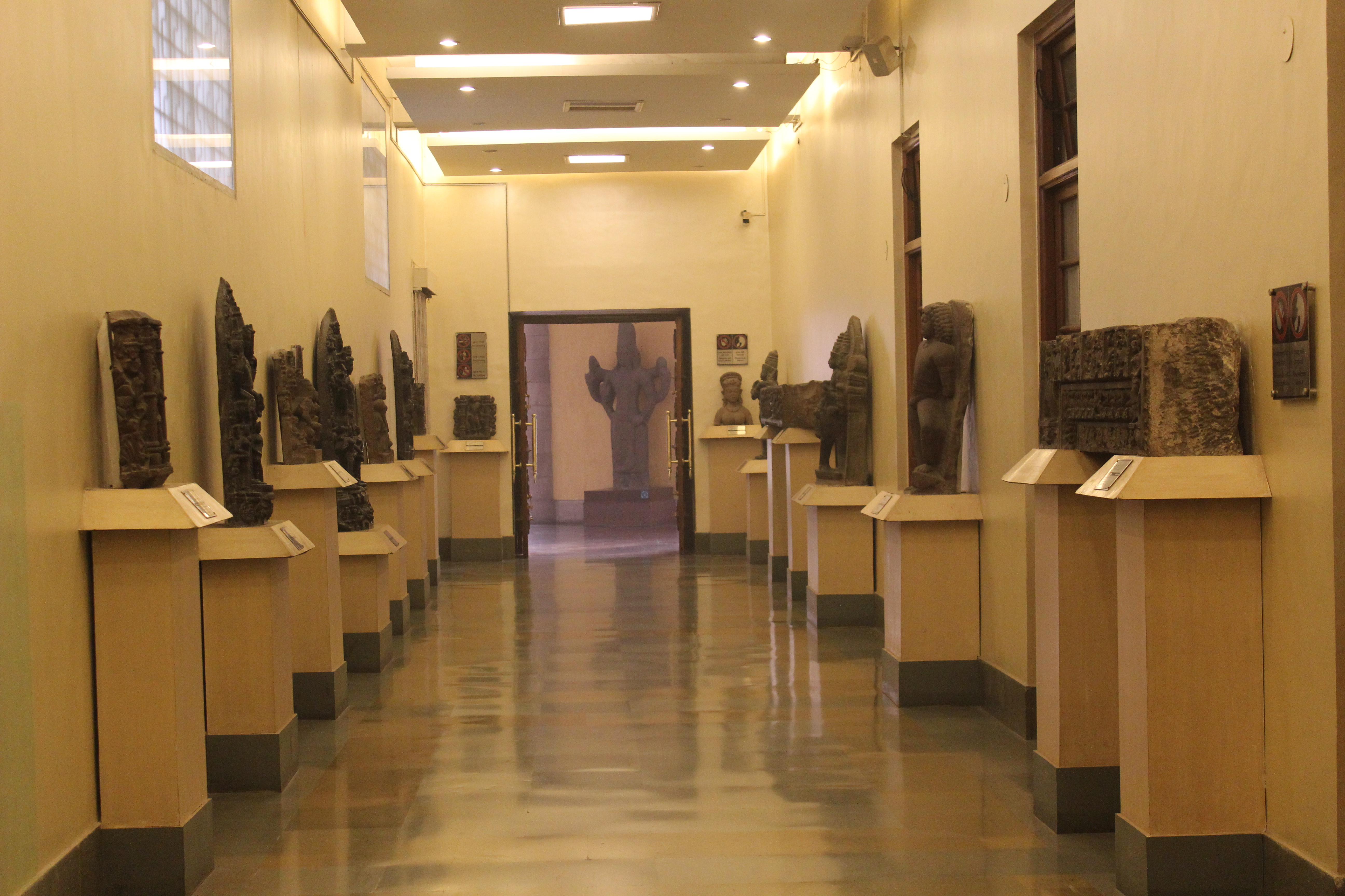 This is the corridor which leads to the different galleries of the national museum, new delhi